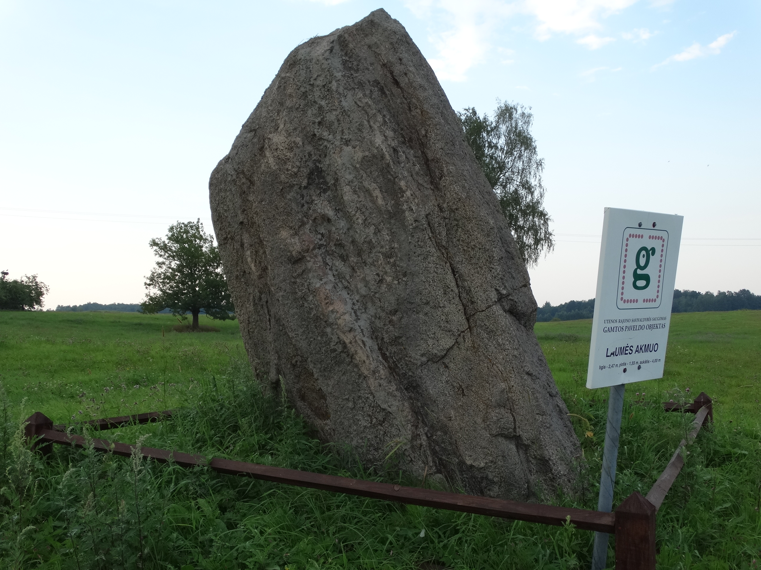 Laumės stone, Žiezdriai, Utena District, Lithuania